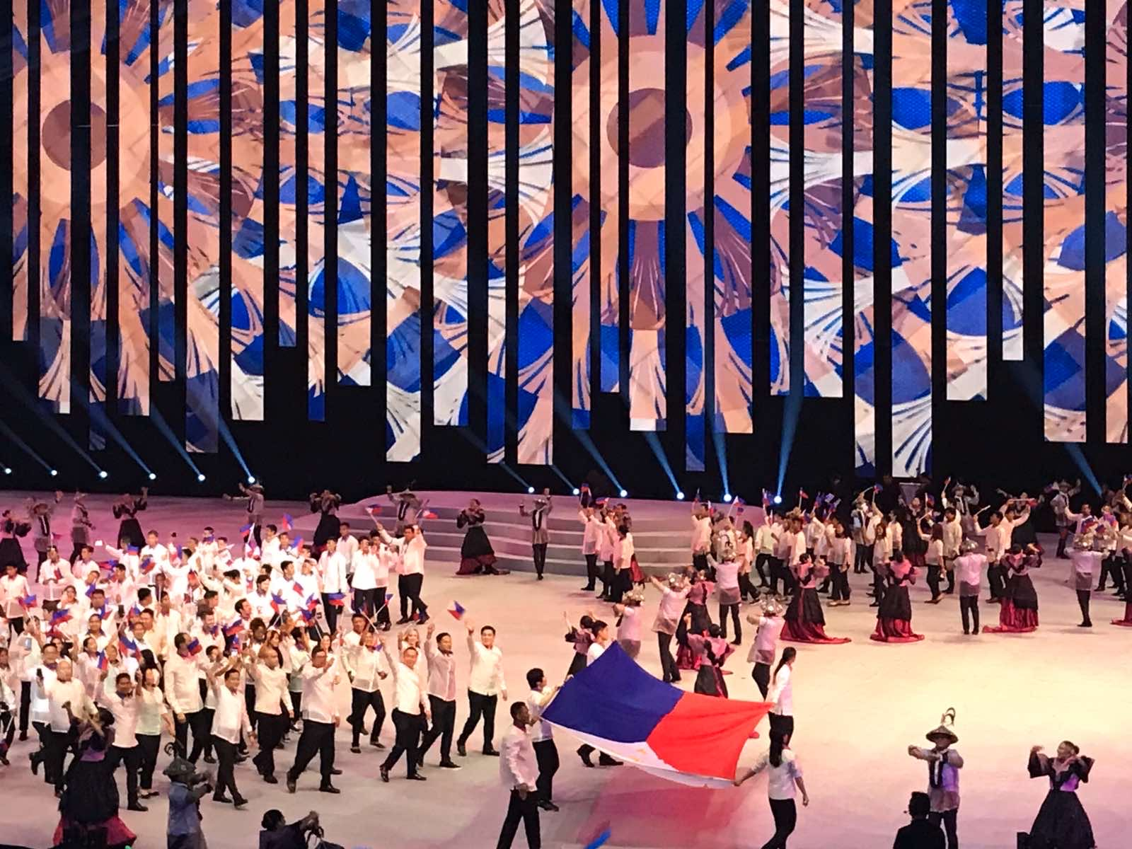 The entry of about one thousand athletes of Team Philippines accompanied by the tune of "Manila" by Hotdog was greeted by loud cheers. Meggie Ochoa of jiu-jitsu, Margielyn Didal of skateboarding, EJ Obiena of pole vault, Eumir Marcial of boxing and Kiyomi Watanabe of judo served as flag bearers of the delegation (Mar Jay Delas Alas/PIA 3) Tagalog: Malakas na sigawan ang sumalubong sa pagpasok ng humigit kumulang isang libong atleta ng Team Pilipinas sa saliw ng kantang “Manila” ng Hotdog. Nagsilbing flag bearers ng koponan sina Meggie Ochoa ng jiu-jitsu, Margielyn Didal ng skateboarding, EJ Obiena ng pole vault, Eumir Marcial ng boxing at Kiyomi Watanabe ng judo. (Mar Jay Delas Alas/PIA 3)